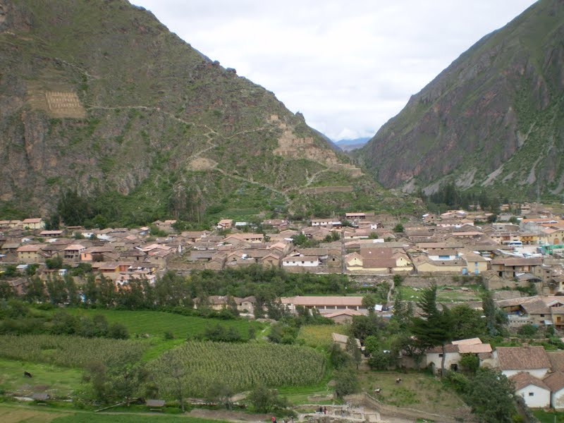 Ollantaytambo town, in Peru.